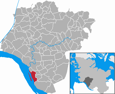 This map shows the area of the Stadt (town) Glückstadt in the Kreis (district) Steinburg, Schleswig-Holstein, Germany.